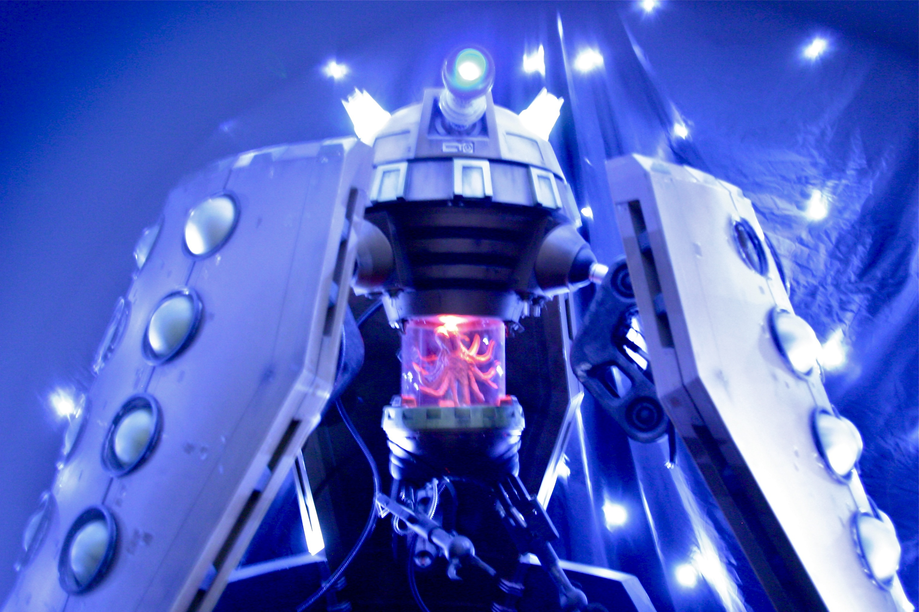 Emperor Dalek Doctor Who Experience